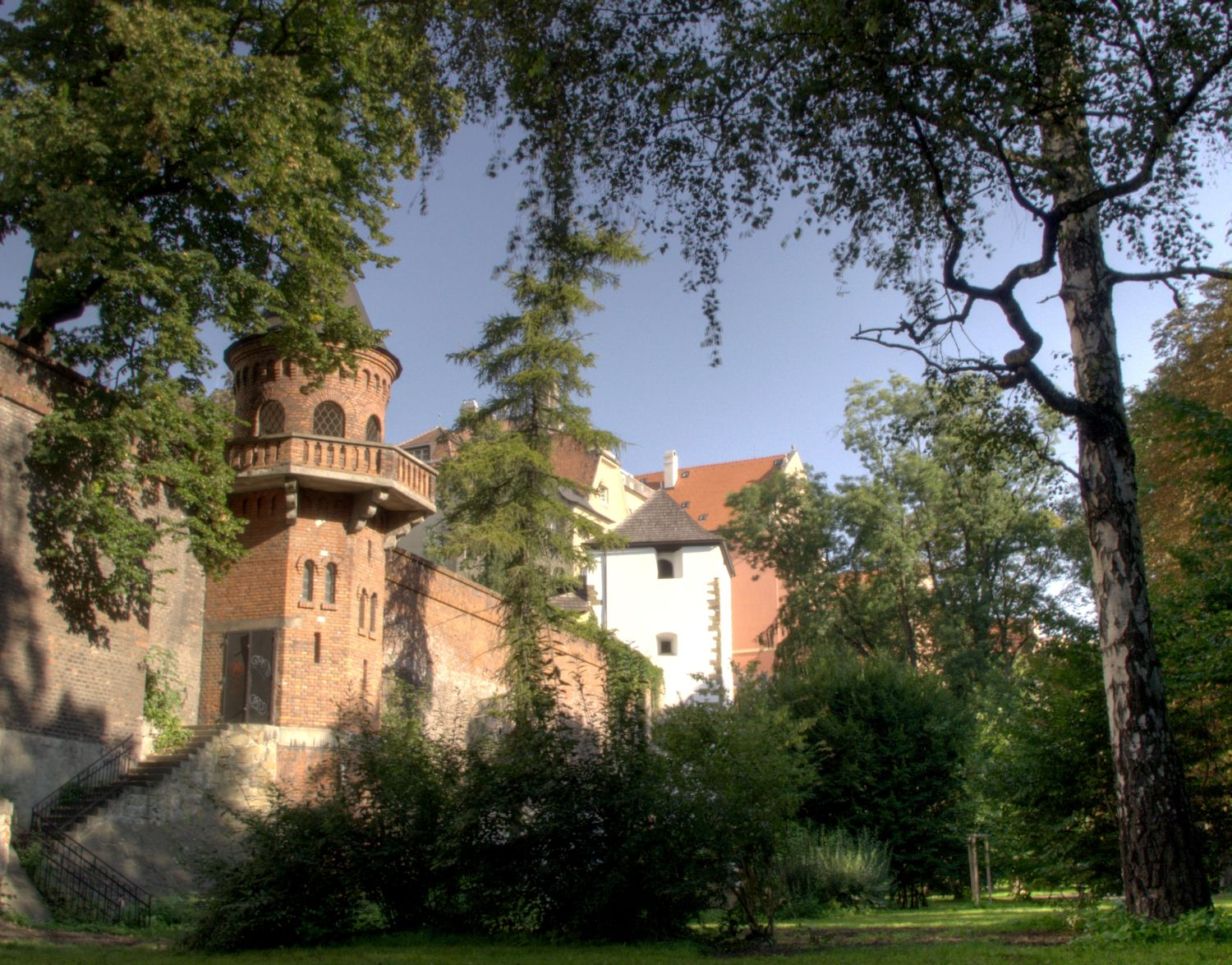 Department of Musicology (Palacký University, Faculty of Philosophy) - view from the park